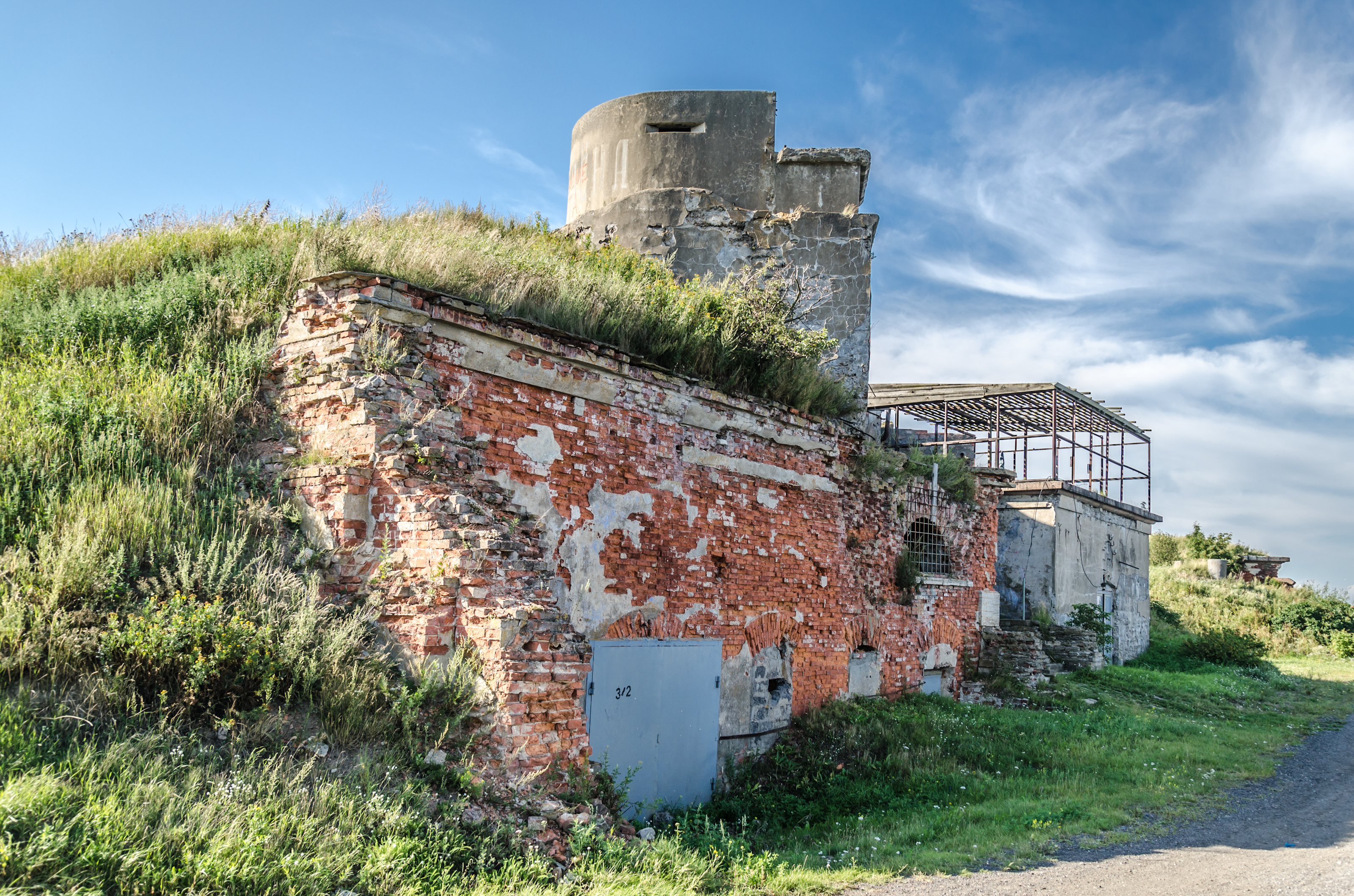 Fort Konstantin in Kronstadt